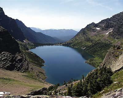 Lake Ellen Wilson in Glacier National Park USA as seen from Gunsight Pass